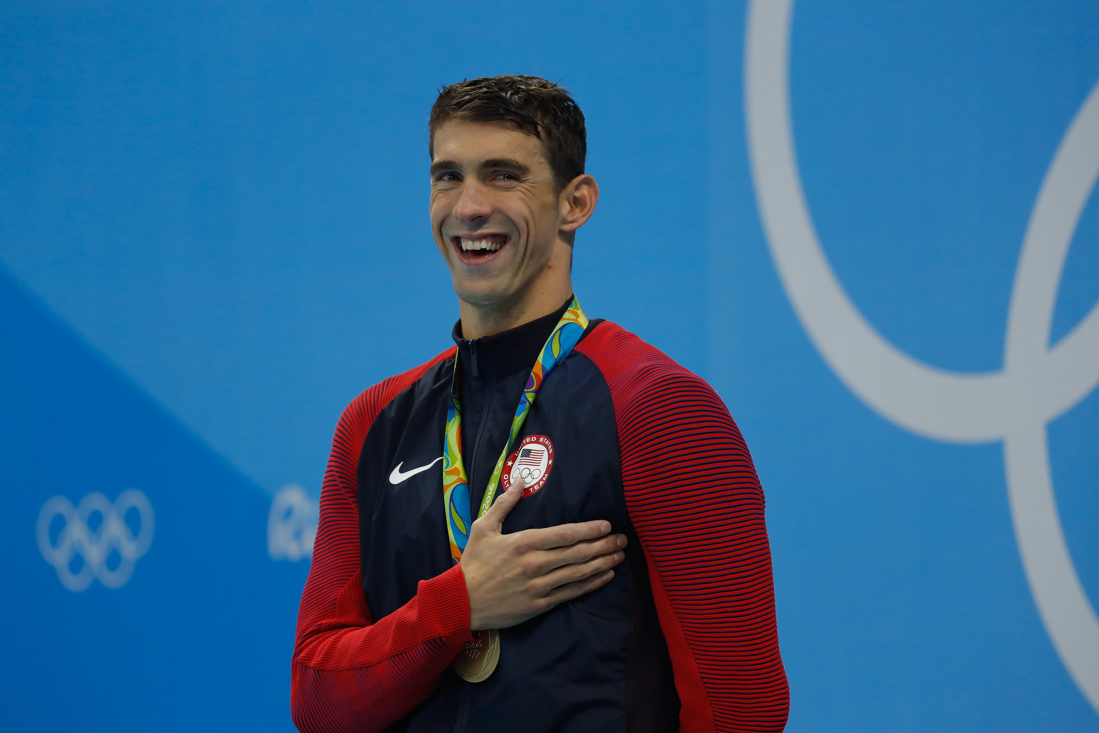 Rio de Janeiro - Michael Phelps, dos Estados Unidos, ganha sua 20ª medalha de ouro olímpica, nos 200m nado borboleta, nos Jogos Rio 2016. (Fernando Frazão/Agência Brasil)